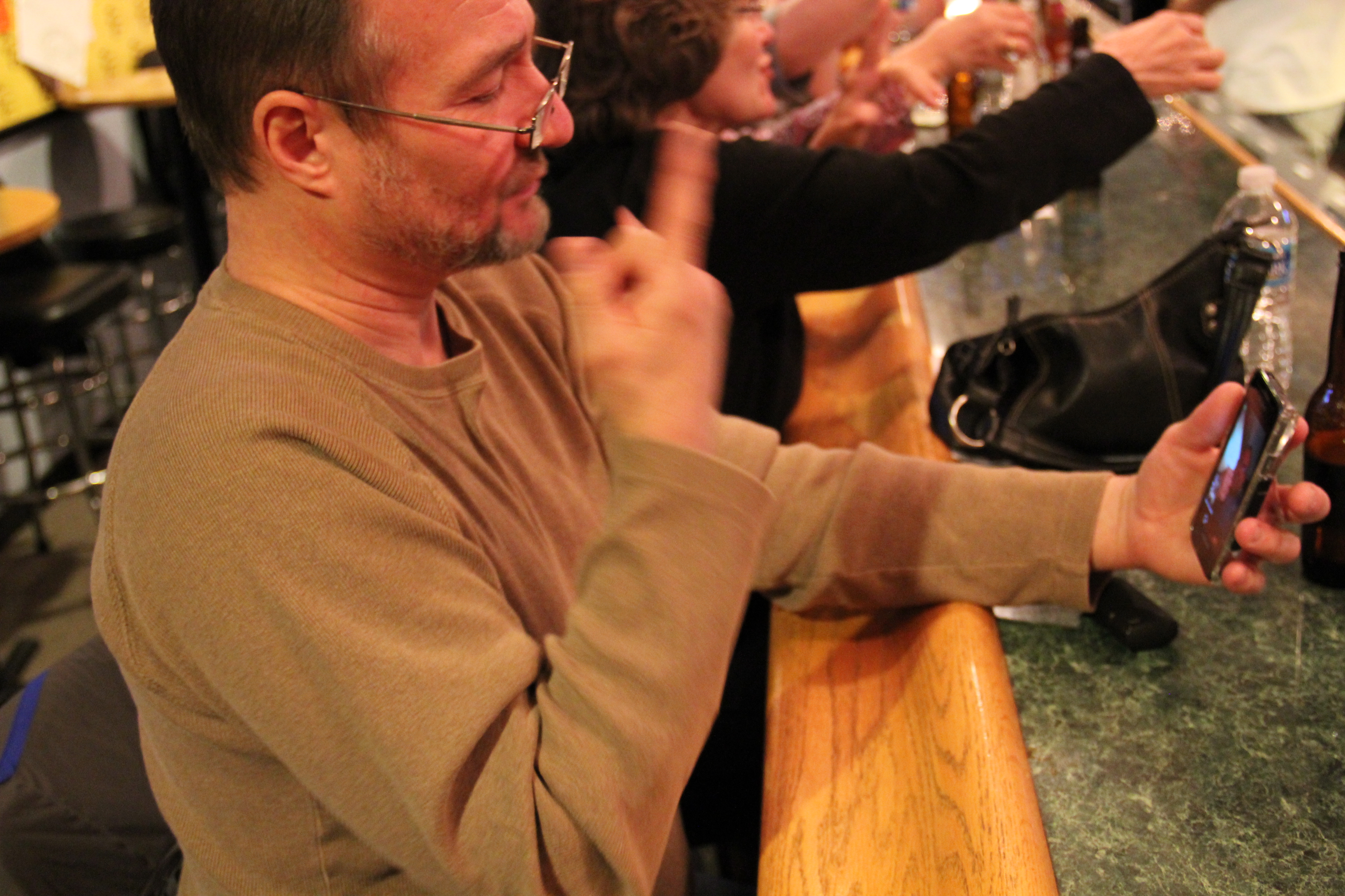 A deaf person using videoconference for sign language talk